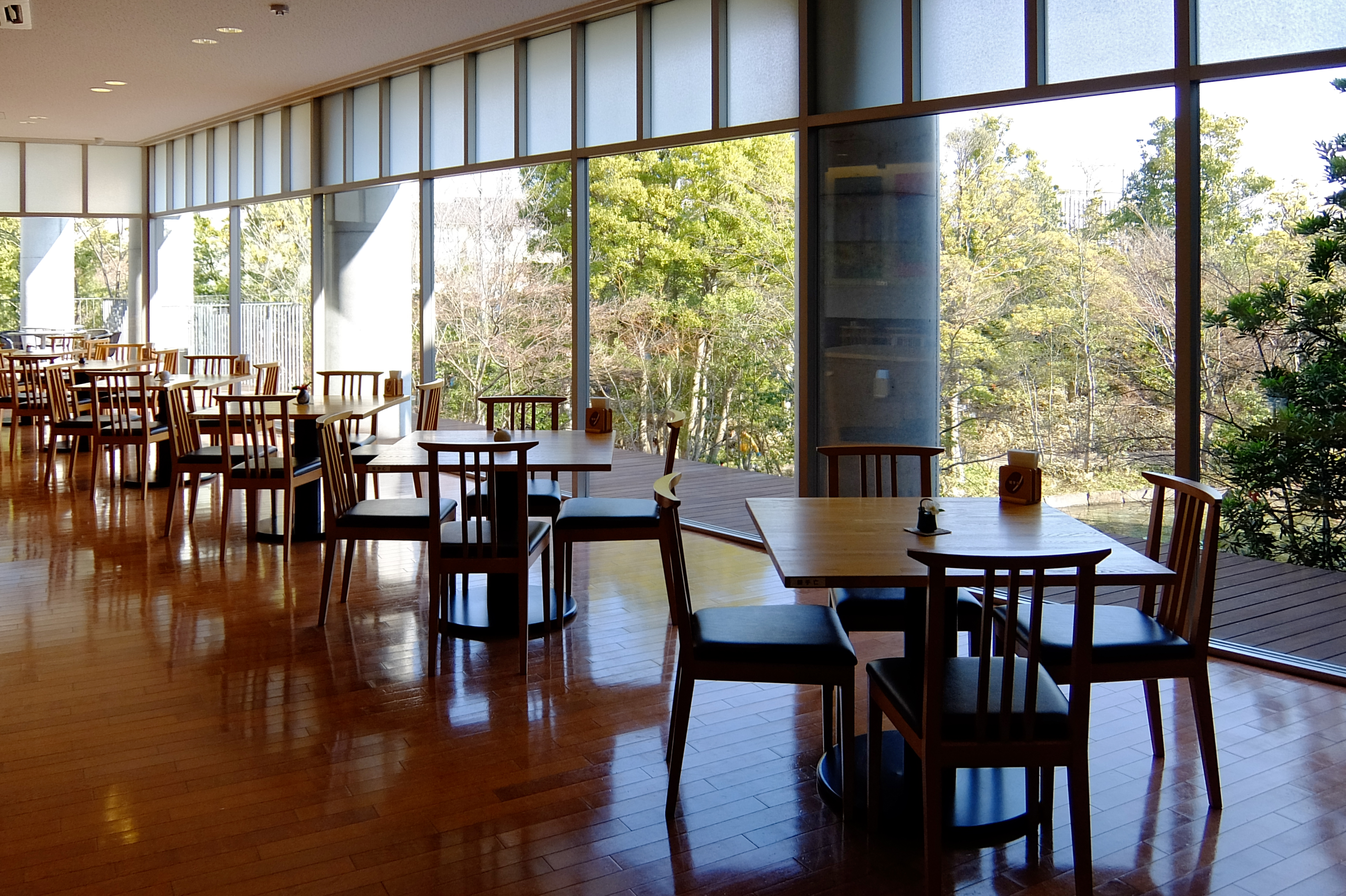 Azuki Museum in Himeji, Hyogo prefecture, Japan.